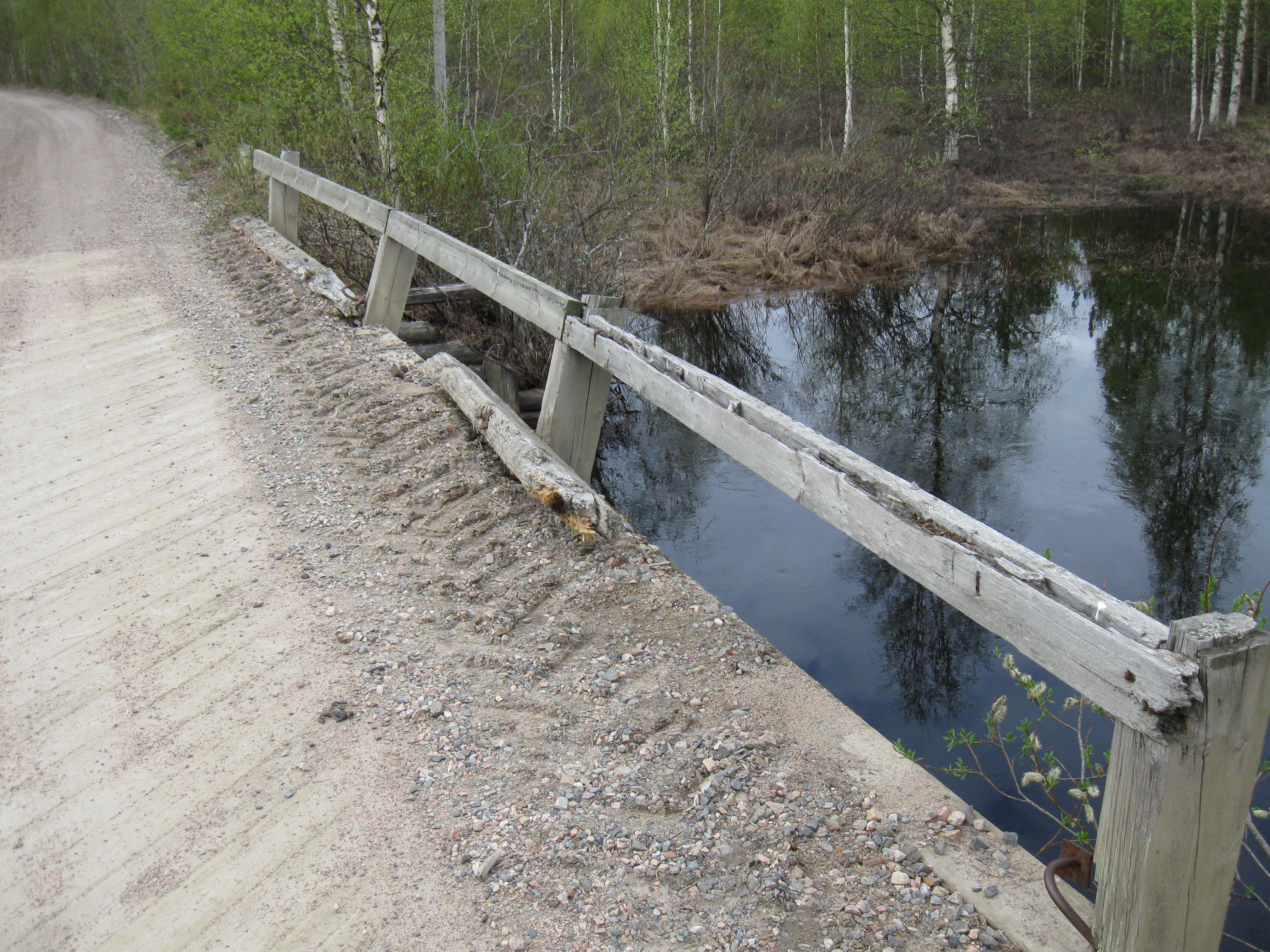 A dangerous bridge accross a small river in a rural area.